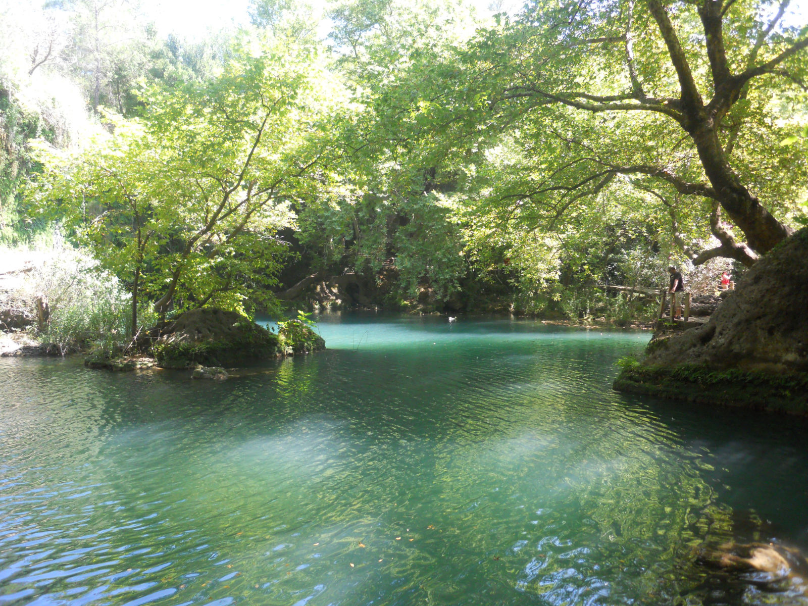 the waterfall pond